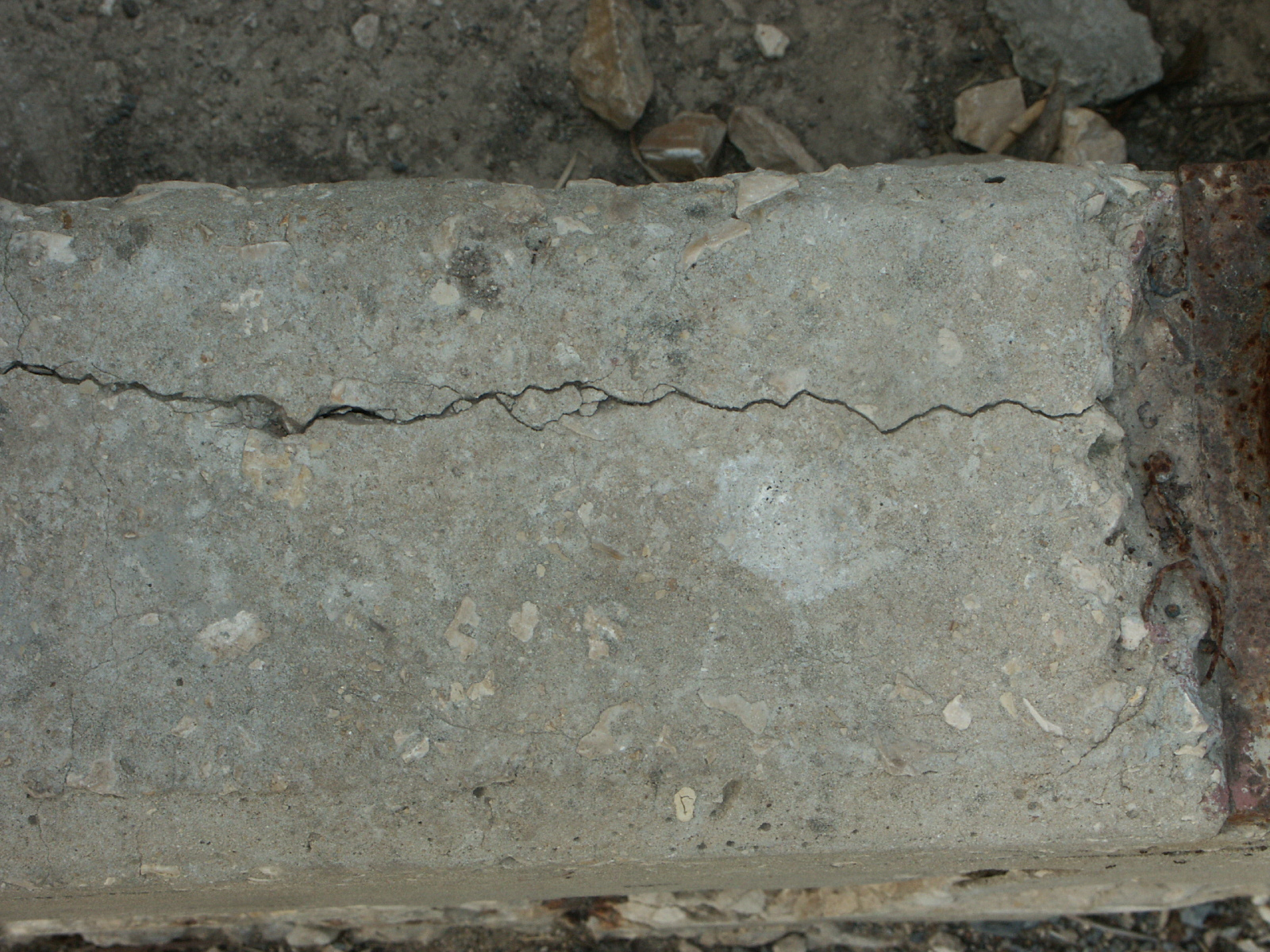 a crack due to reinforcement corrosion. dgania b, israel